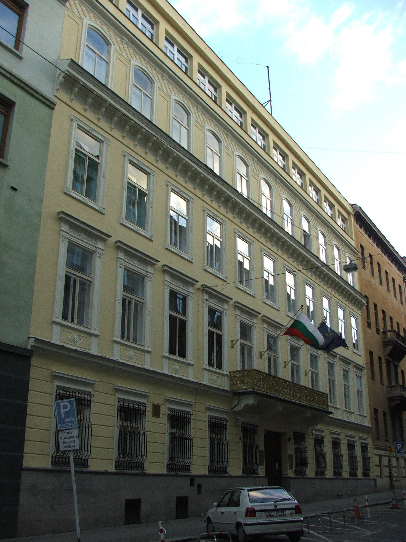 Embassy of Bulgaria in Prague - Krakovská street, Nové Město (New Town), Czechia